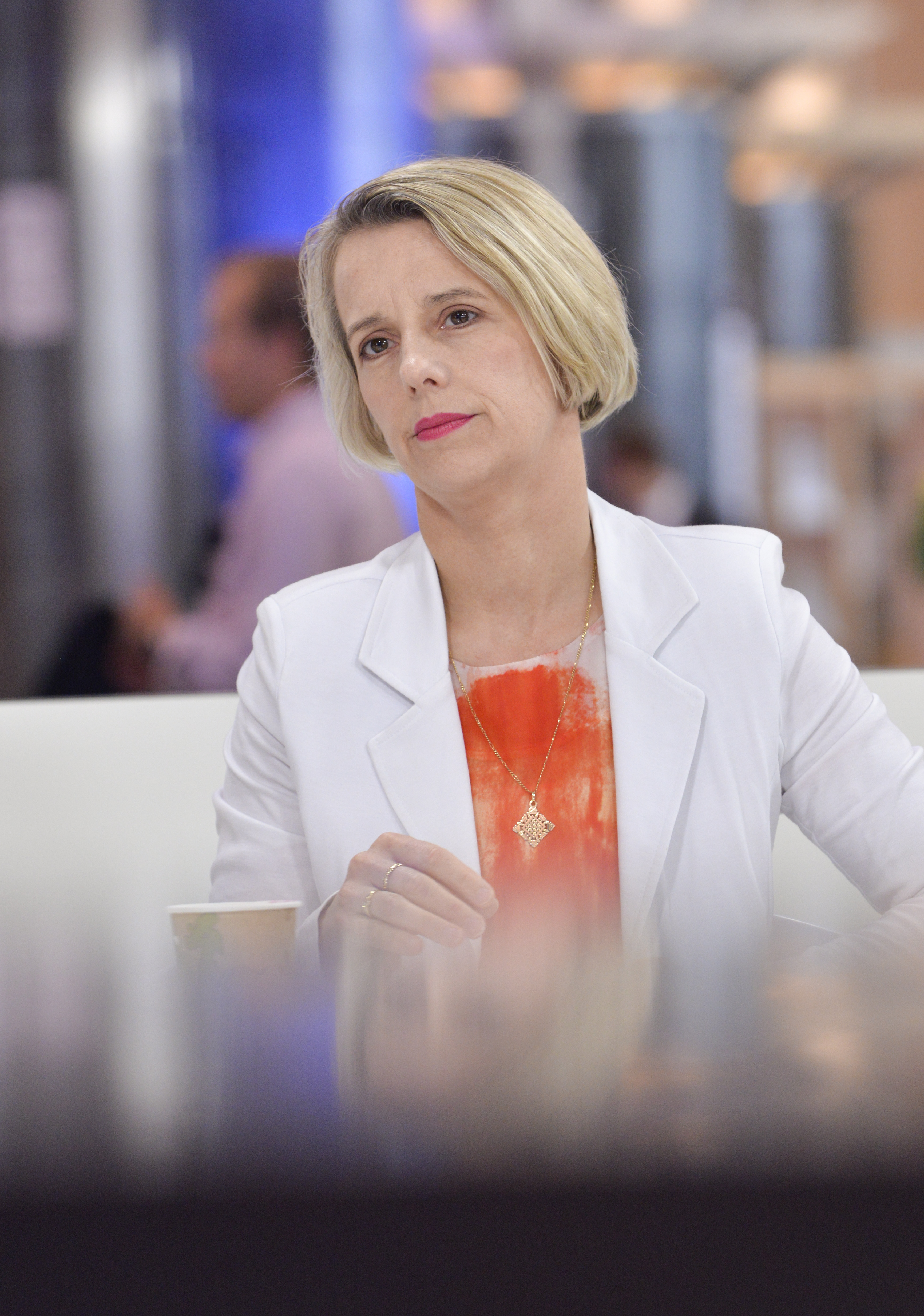 The quick and the dead. Europe’s migration crisis – the Euranet Plus radio network, in partnership with HRT Radio (Croatia), hosted a live debate from the European Parliament discussing migrations policy. What can the European Union really do? Euranet Plus and HRT Croatia debated the crisis in a bilingual debate moderated by journalist Barbara Peranić of HRT Radio (in Croatian) and Brian Maguire of the Euranet Plus News Agency in Brussels (in English). The debate also featured students of the Euranet Plus campus radio network from Croatia (Radio Student) and Spain (Universidade de Vigo). Get all the details about the guests, photos and video recording at